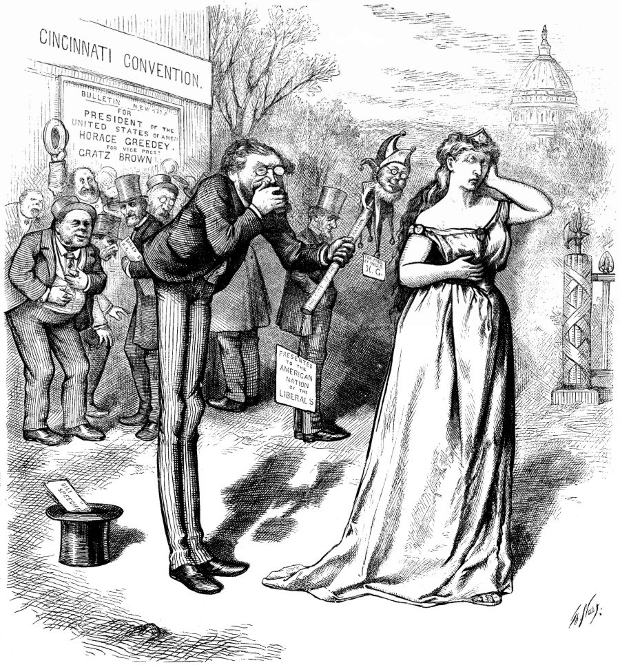 Liberal Republican Carl Schurz covers a smirk on his face as he holds out a joker head (Horace Greeley's caricature) to Columbia (female personification of the United States). A group of others (Boss Tweed, August Belmont, etc.) is in the background looking on in amusement.